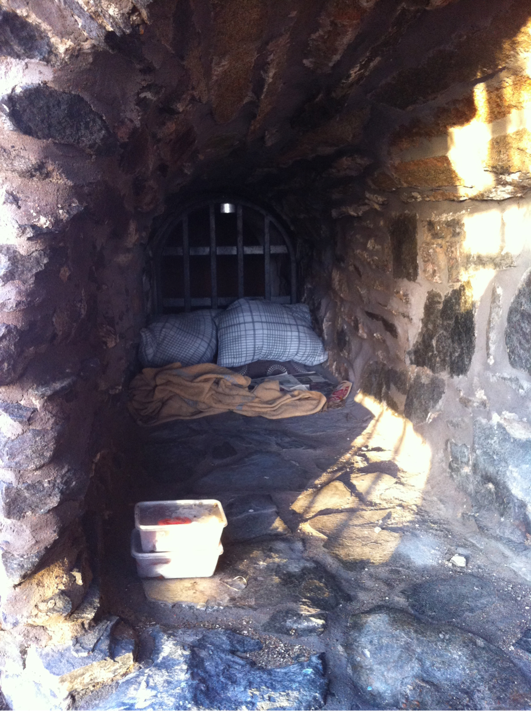 A homeless bed at Skansen Lejonet in Göteborg, Sweden, 2013